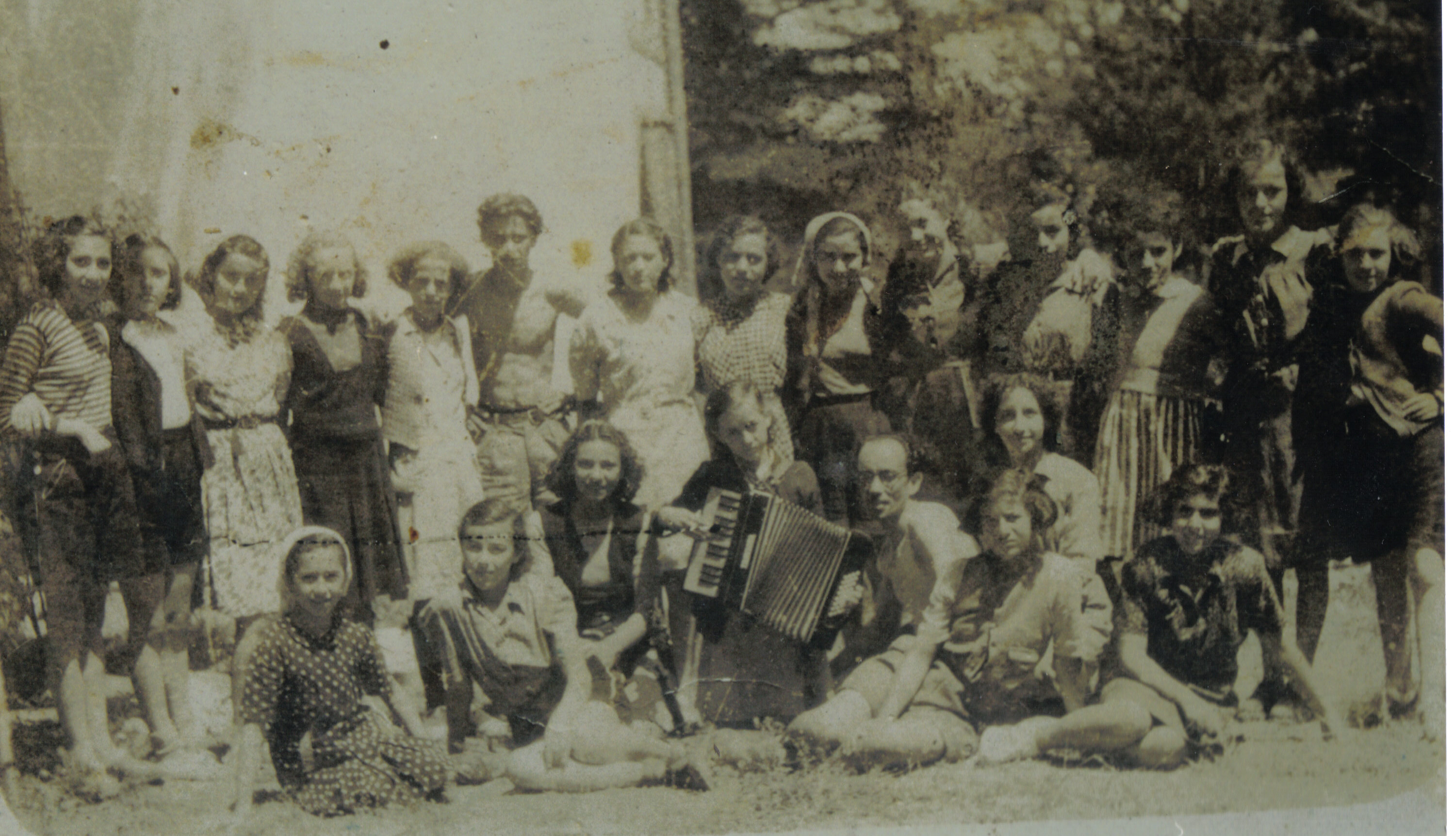 A group of pupils in the Jewish elementary school of Plovdiv, Bulgaria, as photographed in June 1948, shortly before their immigration to the newly-established State of Israel